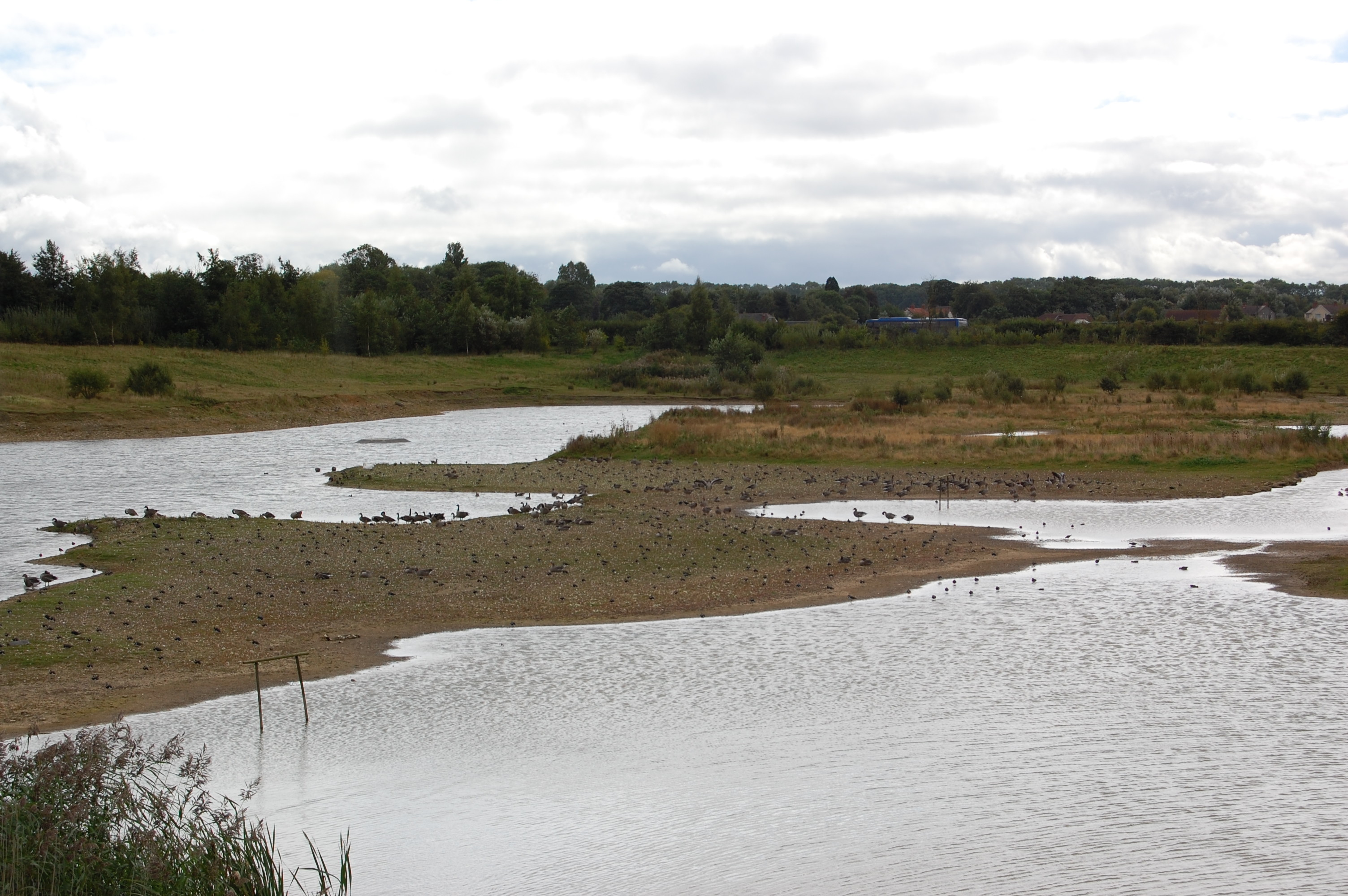 North Cave Wetlands, North Cave, East Riding of Yorkshire, England; looking South from Turret Hide.